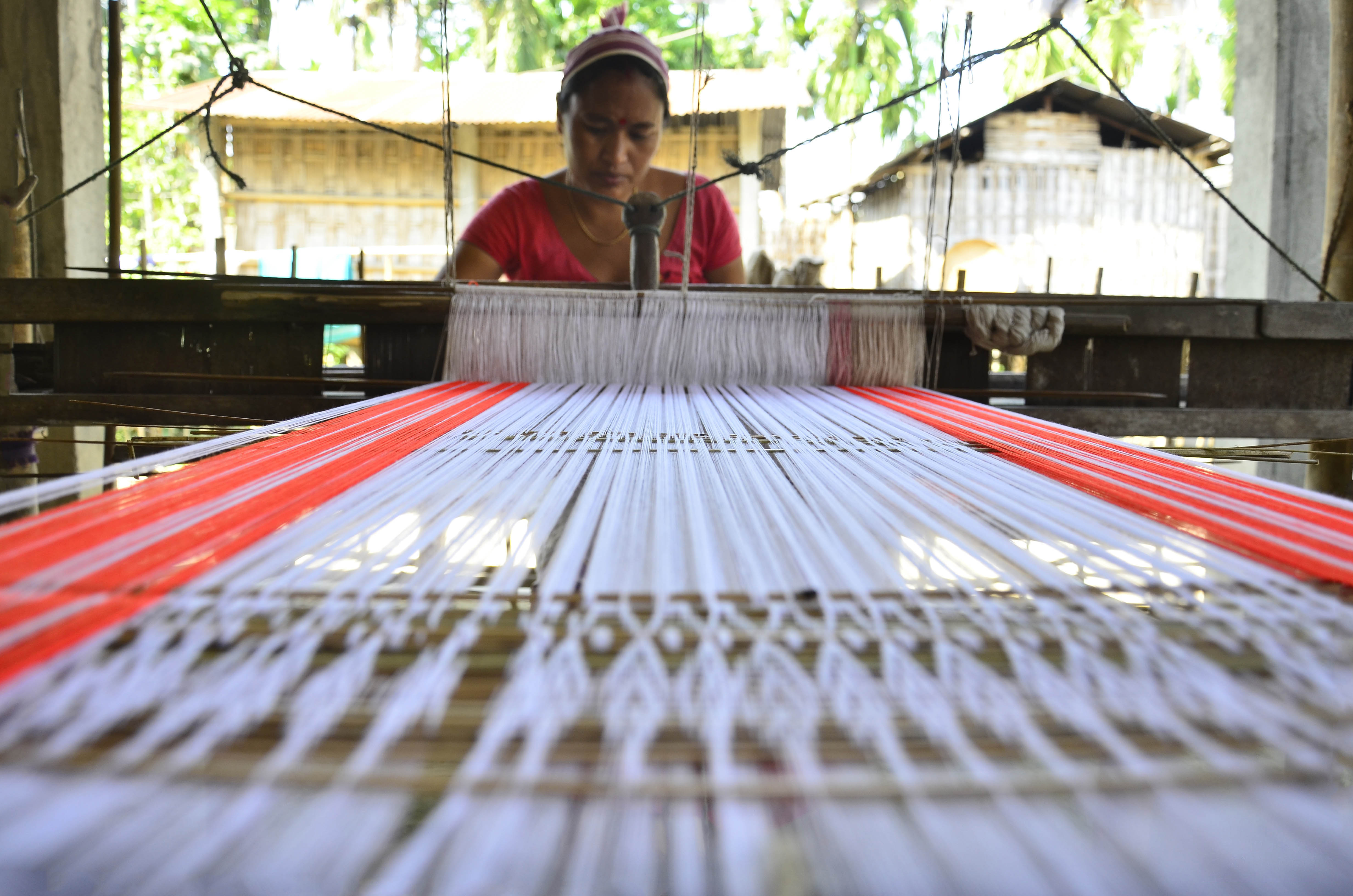 A Deori community woman weaving "GAMUSA" with the help of "TAT" (A unique arrangement specially made for manufacturing "GAMUSA" and other domestic cloths in Majuli, Assam.